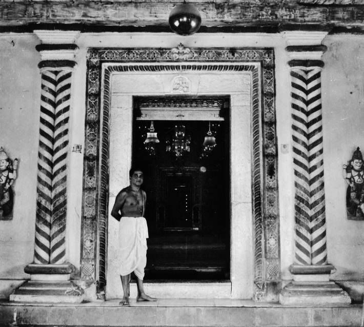 Entrance to the main idol chamber of the Navdurga temple of Madkai